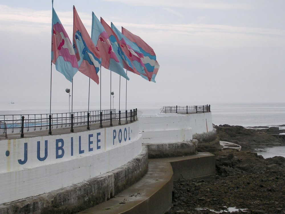 The western side of the Jubilee Pool lido, Battery Rocks, Penzance, Cornwall.